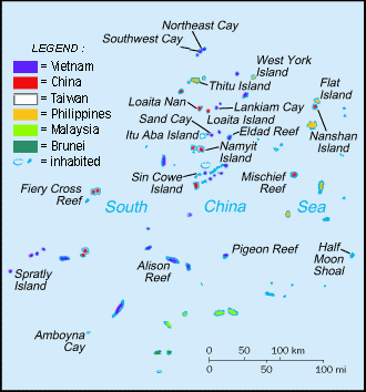 Spratly Islands military settlements